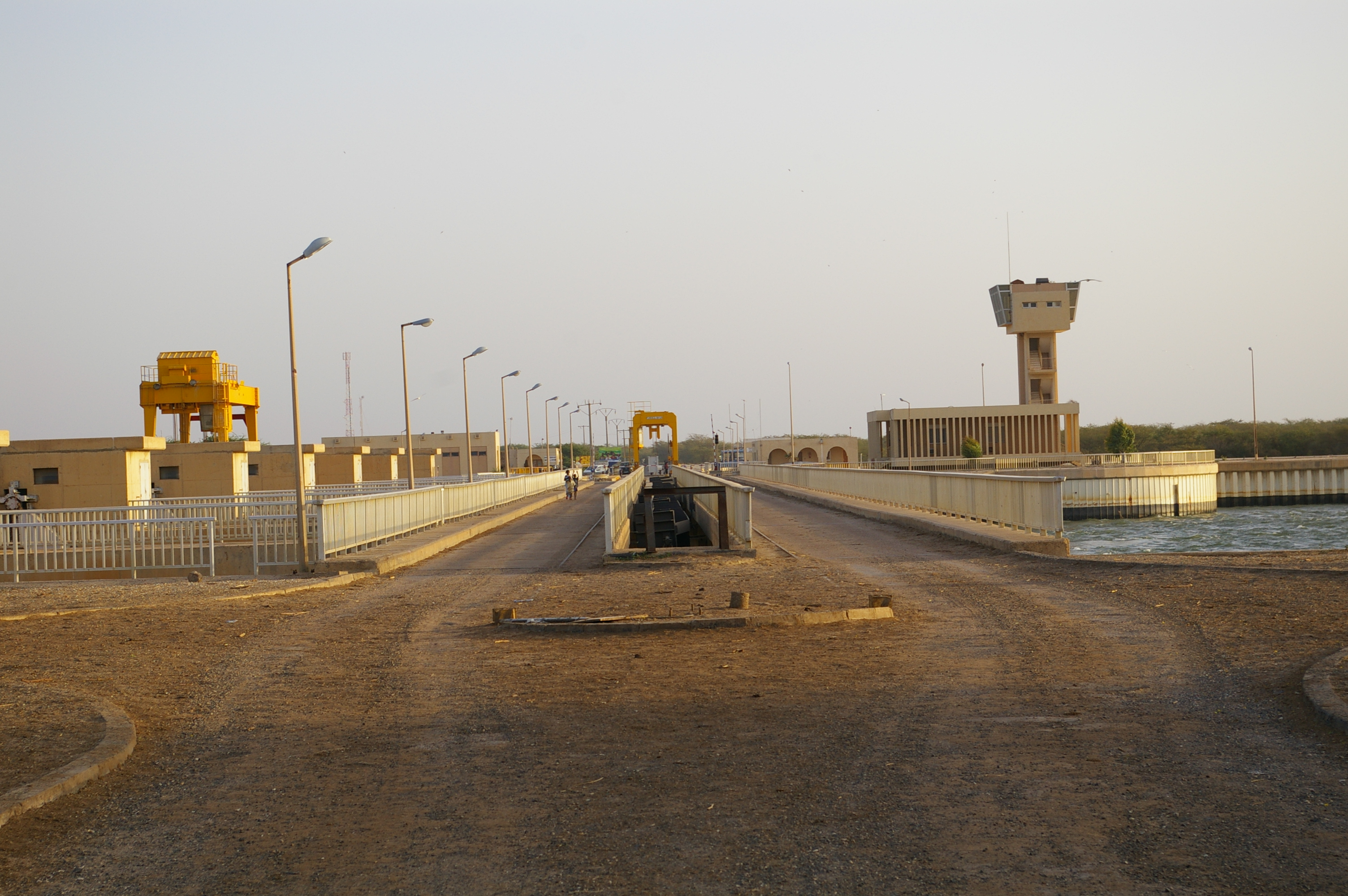 The border Senegal/Mauretania at the estuary mouth of the Senegal-river, photographed from Mauretania.